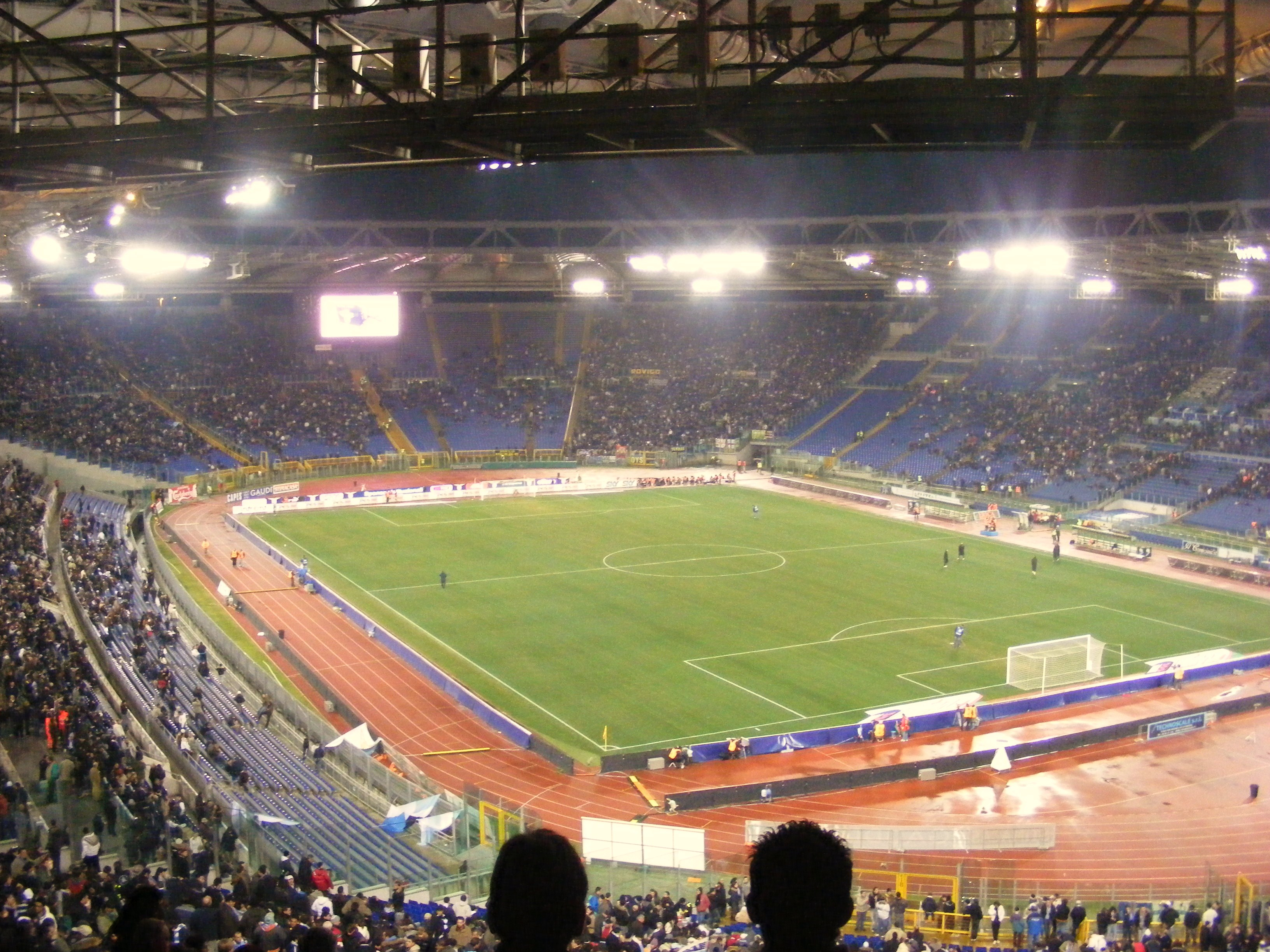 The Stadio Olimpico in Rome during a S.S. Lazio's match